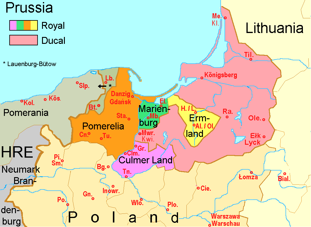 Polish-ruled Prussia ("royal") vs. Brandenburg-ruled Prussia ("ducal") down to the partition of 1772.